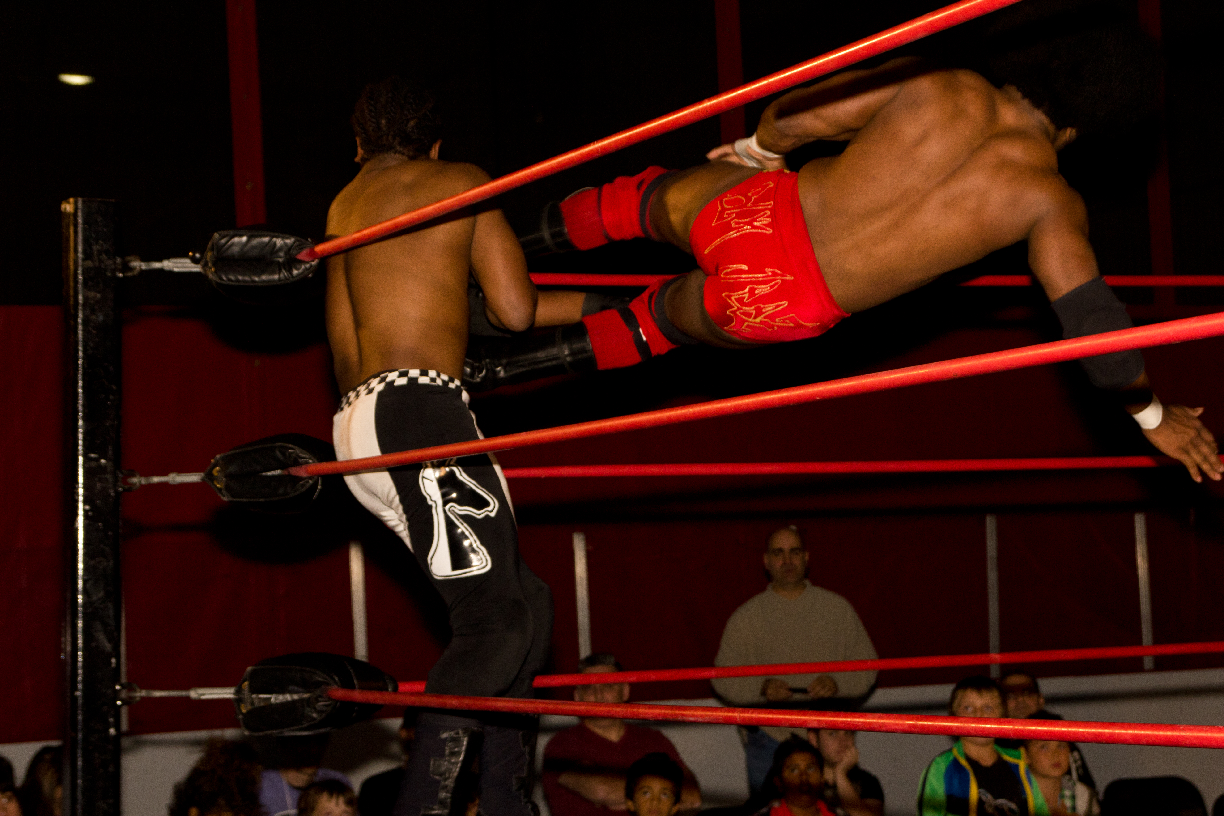 Indy wrestler Blk Jeez (in red trunks) executing a drop-kick on Lionel Knight